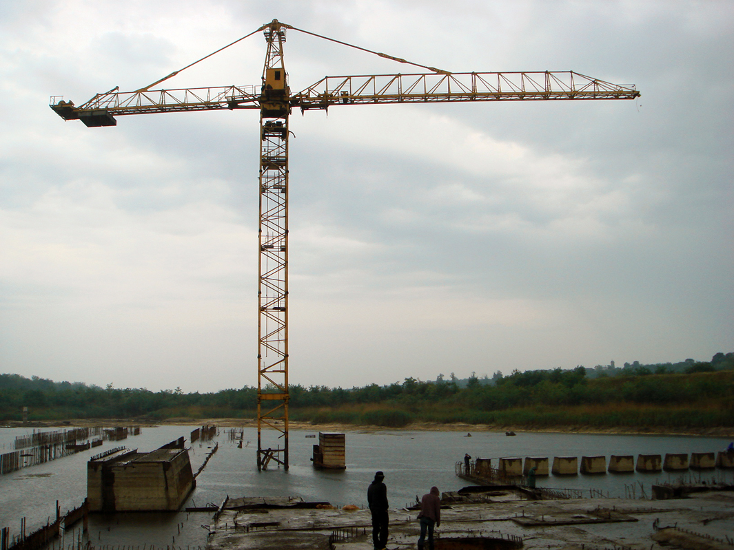 4th lock on the canal, abandoned in construction around 1990